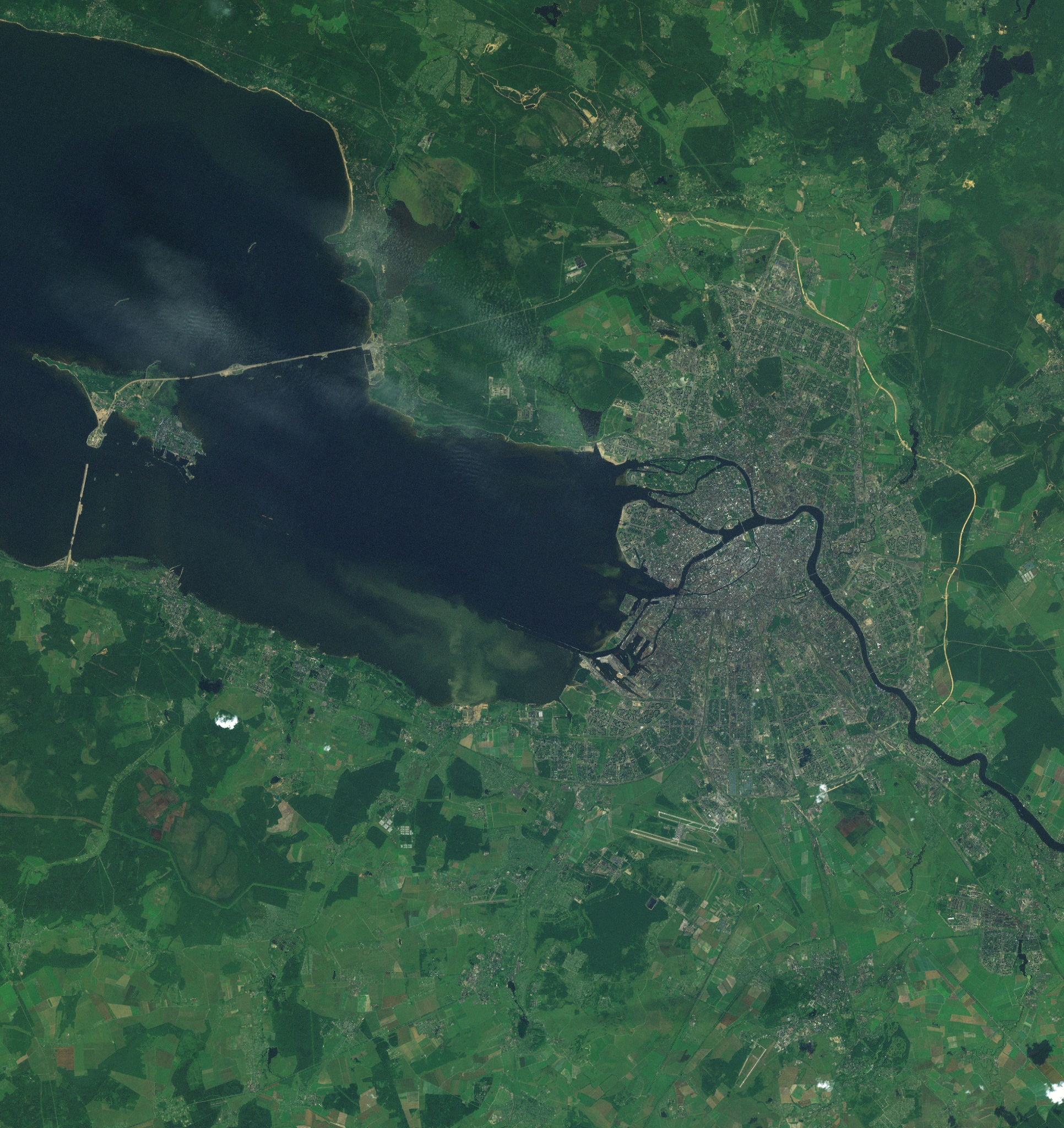 Saint Petersburg from space